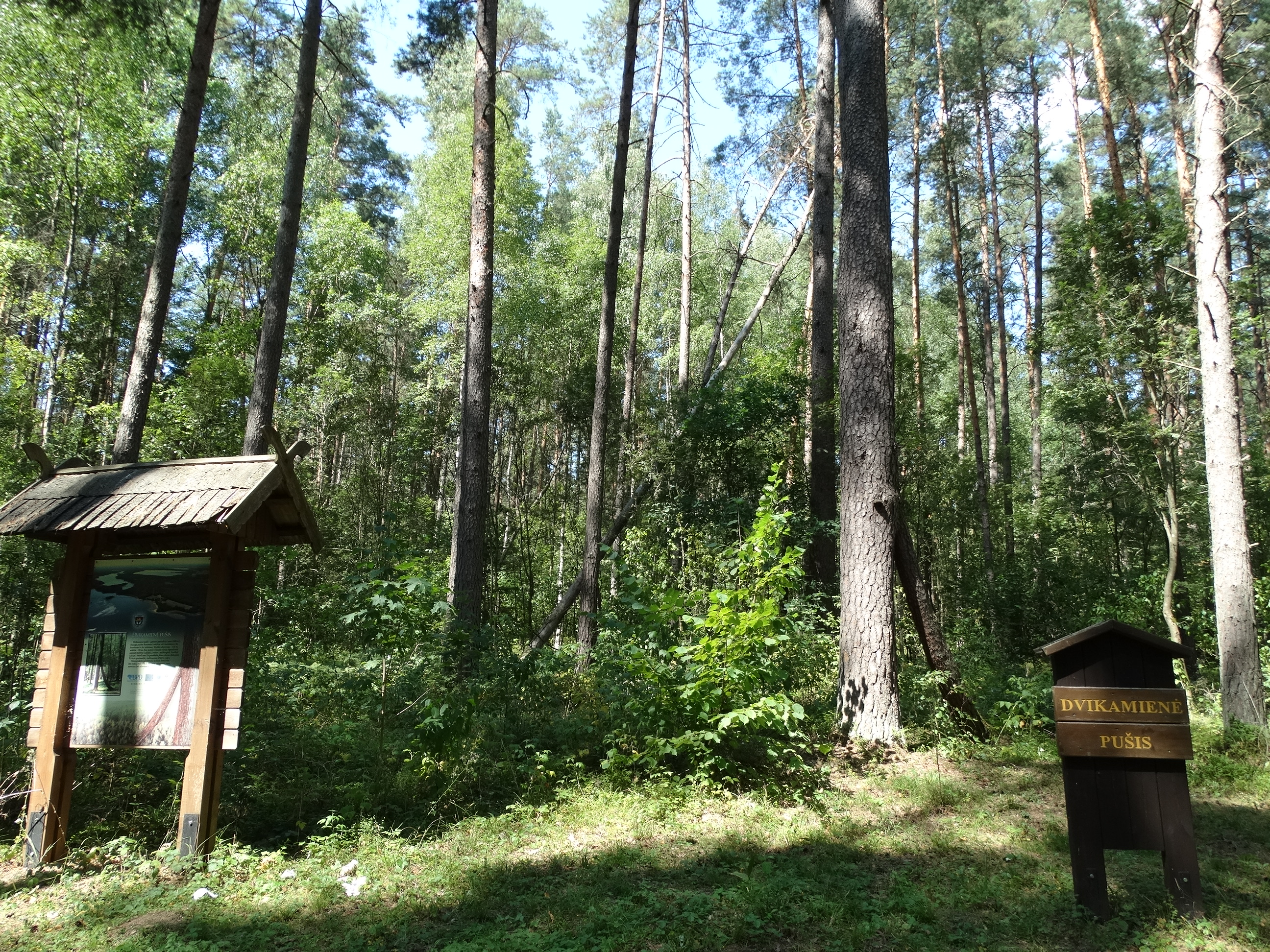 Two-trunk pine, Molėtai district, Lithuania